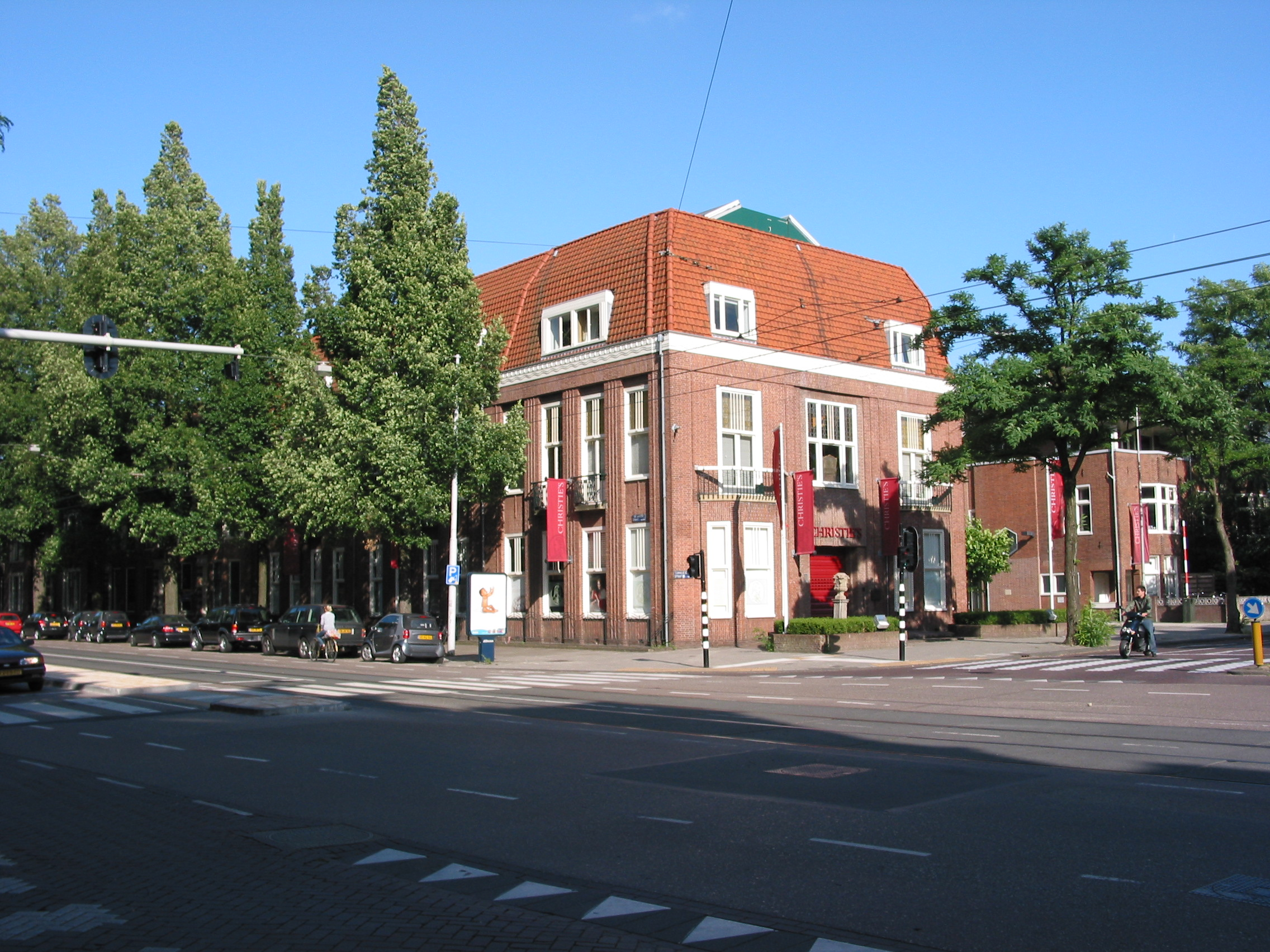 Christie's, De Lairessestraat [81-83]/Cornelis Schuytstraat 57, Amsterdam.